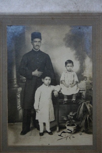 Syed Fazlullah with his eldest son Arif Sajjad and eldest daughter Akther Begum prior to becoming a Jung.